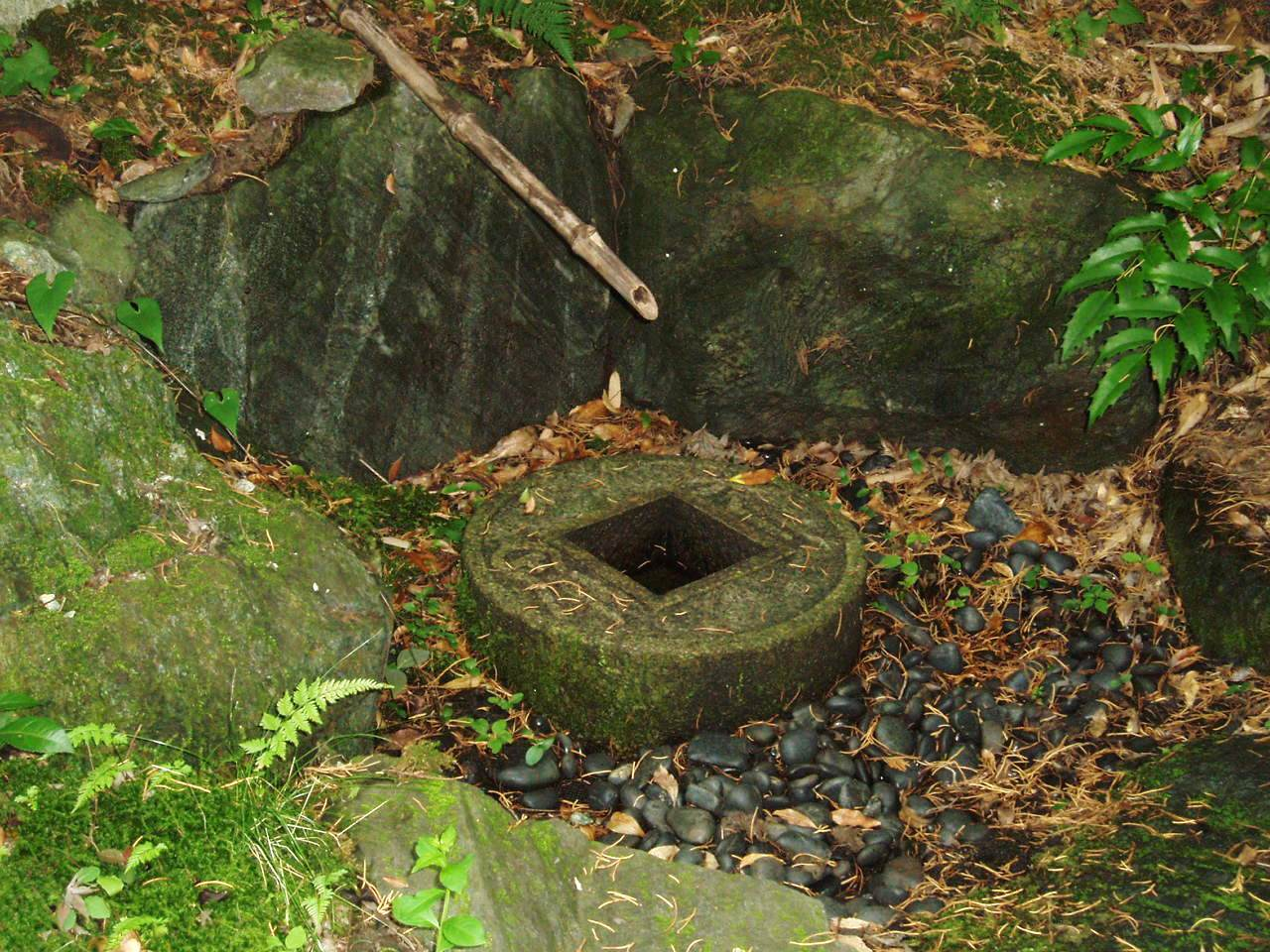 A Suikinkutsu at Nakayama Campus, the University of Creation; Art, Music & Social Work (Souzou Gakuen University), located in Takasaki, Gunma, Japan.